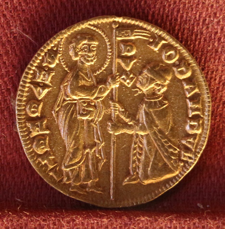 Coins of Venice in the Museo Correr (Venice)